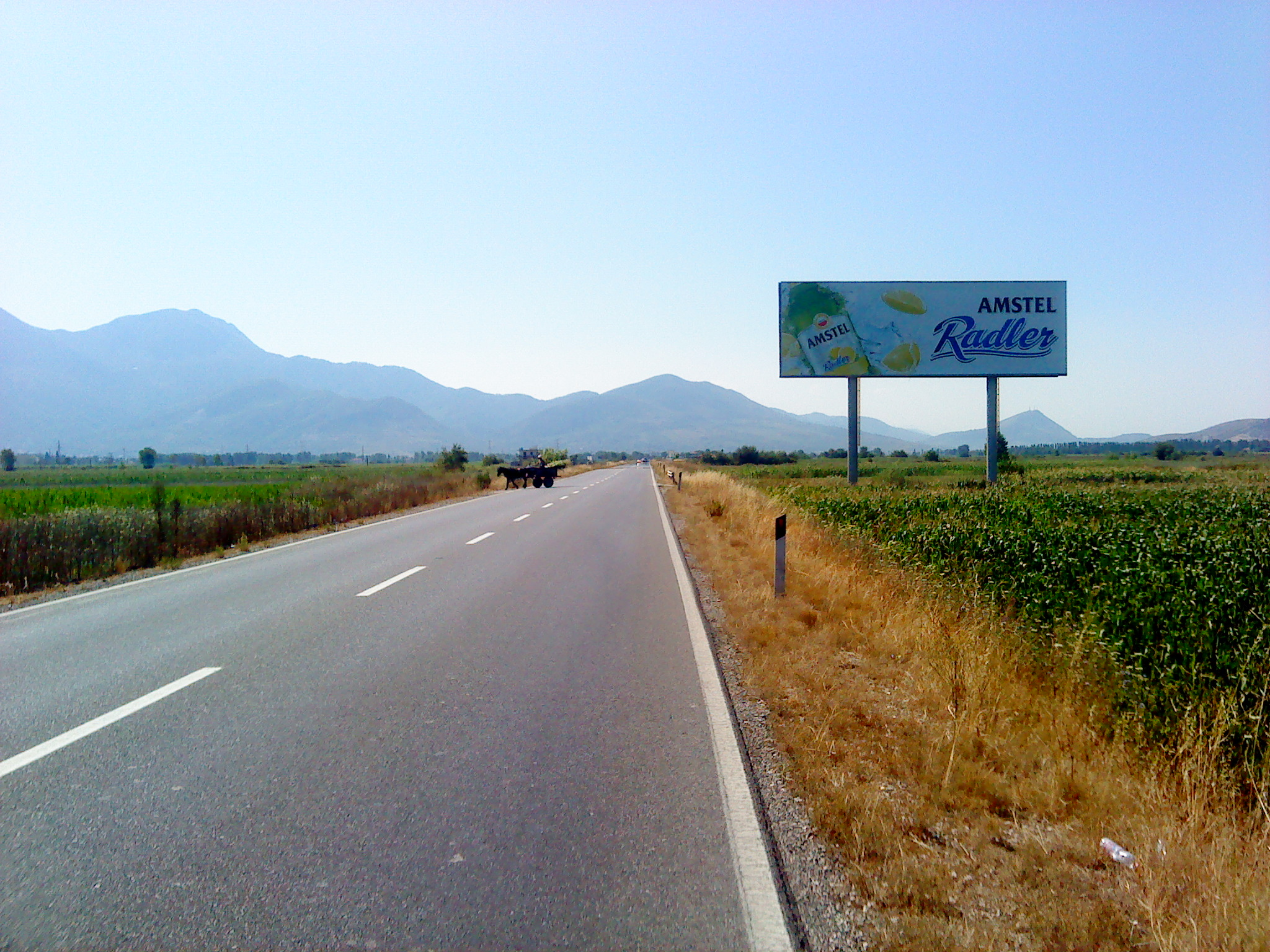 National Road 1 (Albania), albanian National Road between Shokdra and Lezhë